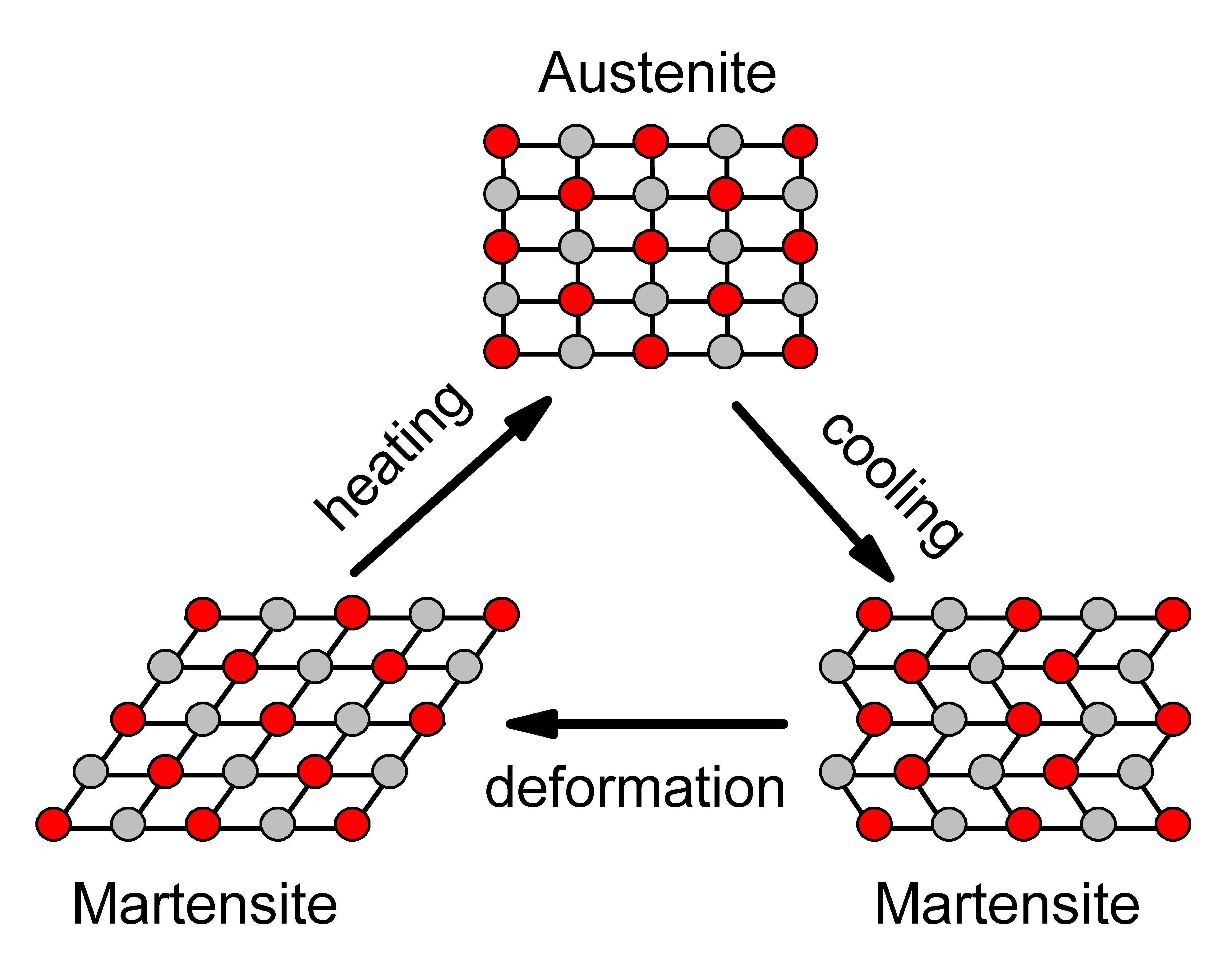 This is a picture illustrating shape memory effect of NiTi alloys